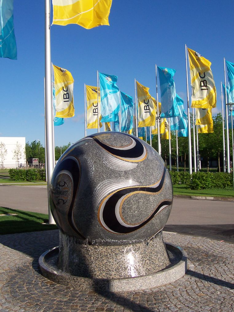 The Football spring in front of the IBC in Munich during the FIFA worldcup 2006 in Germany